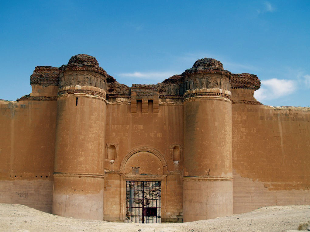 Qasr Alheer Alsharqi (Eastern Alheer Palace or Eastern Castle) is located in the middle of the desert in Syria 128 km away from Palmyra and 100 km from Sergiopolis (Rusafa). It was built by Umayyad caliph Hisham Ibn Abdul-Malek about 740 A.D. in an area rich in desert fauna. It is said that calif used to spend his free time here, and go for hunting and learn original Arabic from local bedouin tribes. The palace consists of two square structures, the bigger one has a diameter of 300m and the lesser one 100m. It is found at the slopes of Bishri Mountain near Palmyran Middle Mountains. The palace(s) contain remnants of rooms, arches and columns seem to be parts of a huge complex of royal premises. Some of the decorated parts are moved to Damascus National Museum. The bigger palace has been several floors, with a huge gate and many towers. Towers were not built as defensive measures. There were also olive yards. The palaces were supplied with water by nearby byzantine church by a canal 5700m long. The palaces contained bathrooms, water reservoirs, mosques and gardens.